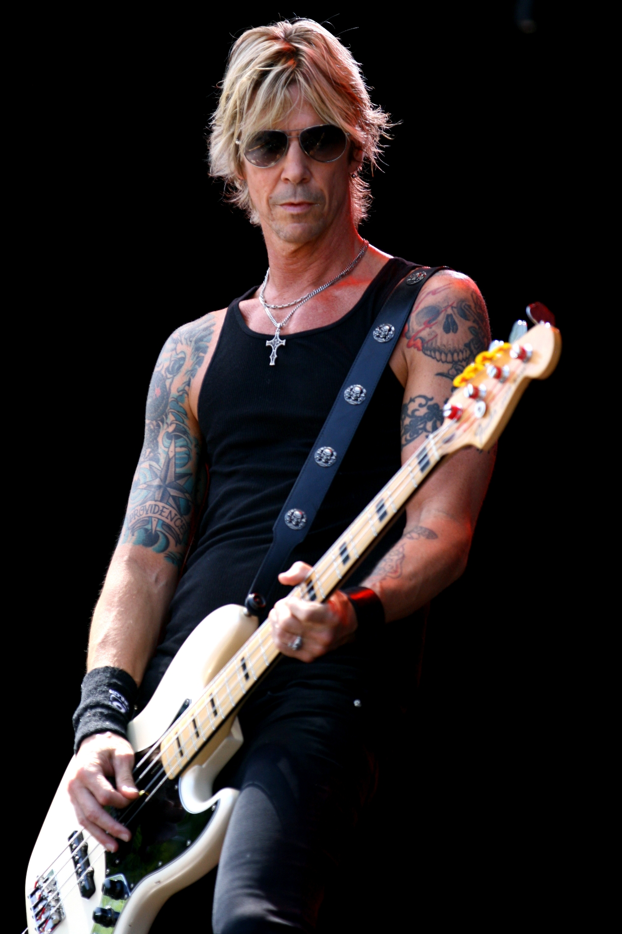 Duff McKagan, bass guitarist of Walking Papers, on the Alternastage of Rock im Park Festival 2014. Festivalsommer This photo was created with the support of donations to Wikimedia Deutschland in the context of the CPB project "Festival Summer".